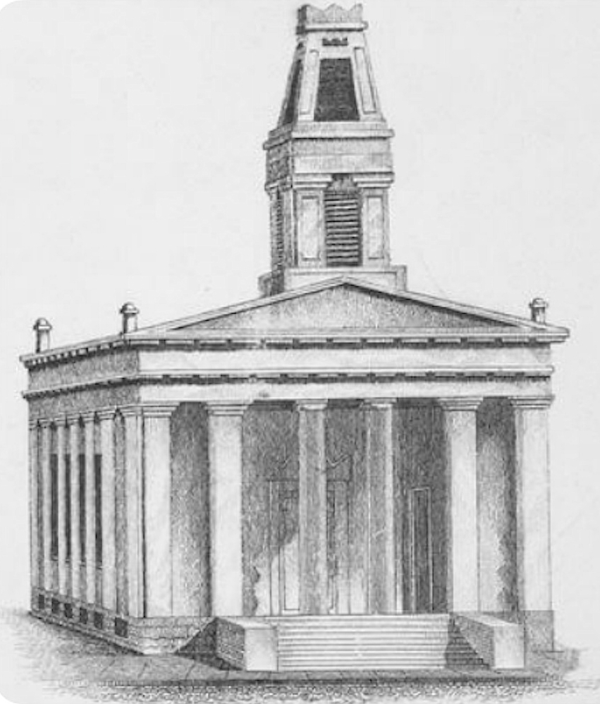 Museum's caption reads: "West Presbyterian Church. N.W. side of Carmine Street near Varick Street." Dakin and Fay, cited below, Chapter 7, p. 54: "Presbyterian Church, Carmine, Head of Varick Street. This recently erected edifice is one of the handsomest places of worship in the city, and the creditable manner in which it has been constructed is an honour to the respectable congregation which frequents it. It is built of white marble, in a chaste doric style, and the front has a very imposing appearance, being modelled after the celebrated ruins of the Temple of Jason, at Illisus. The interior is elegantly finished, and the whole is a very conspicuous ornament to the street."